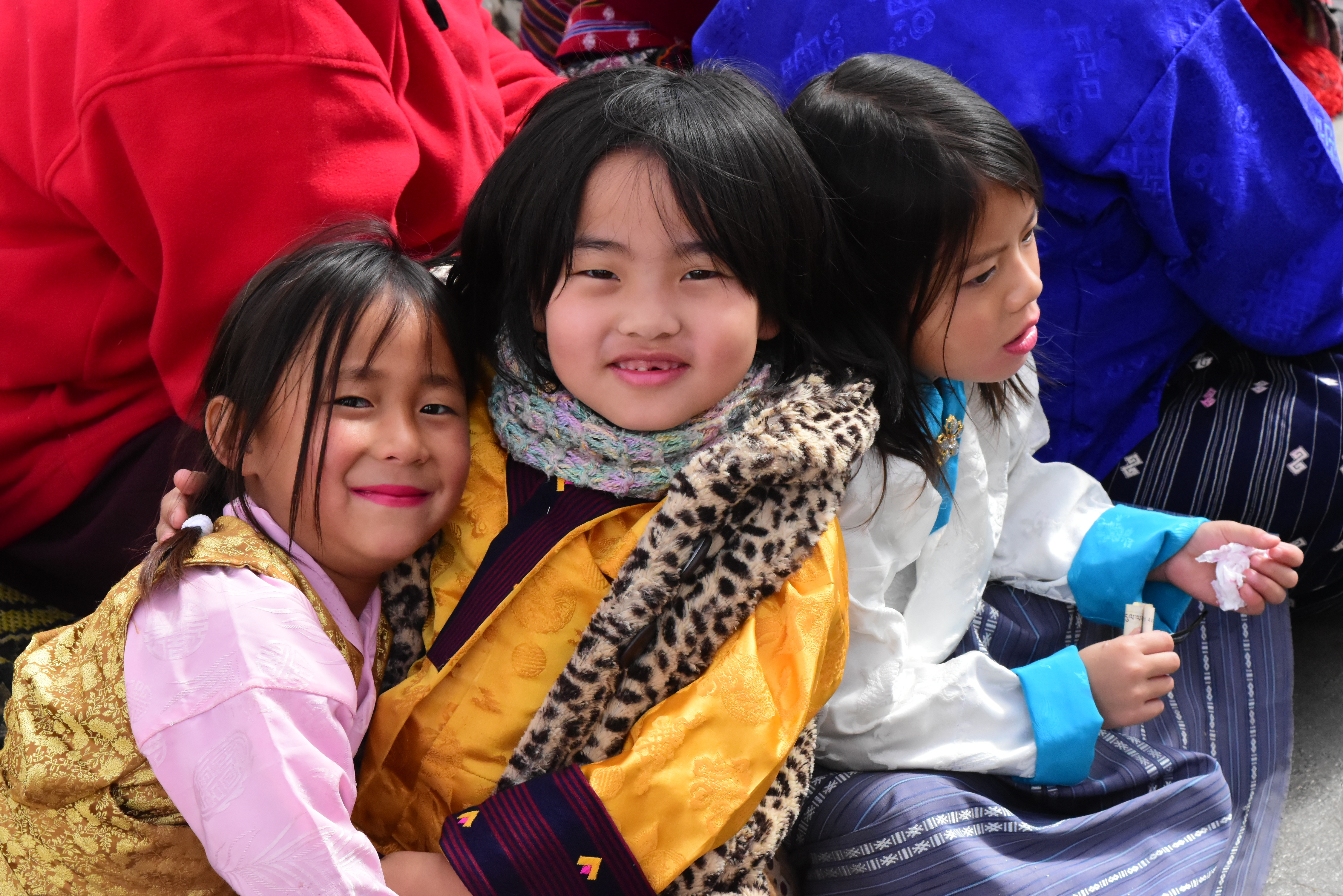 Children of Bhutan/Niños de Bután.